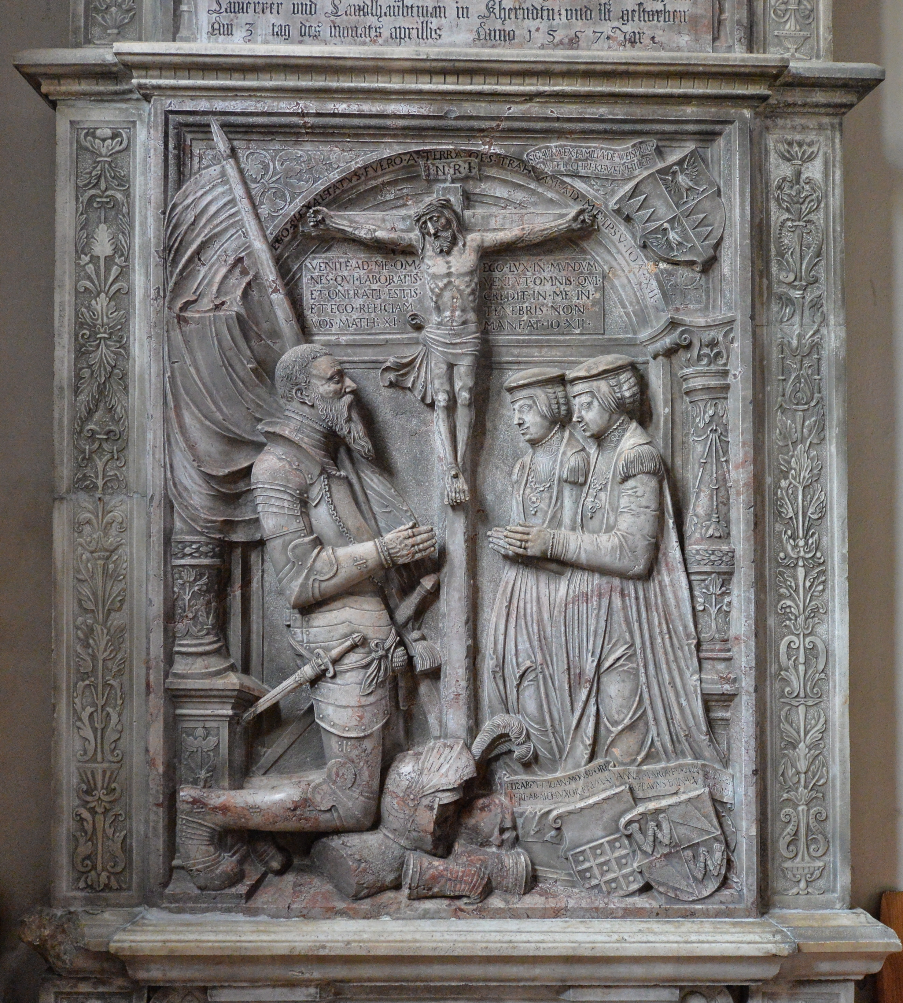 Renaissance epitaph with the relief of Christoph Khevenhüller and his two wivesat the Khevenhueller chapel of the main parish church Saint James the Greater in the city Villach, Carinthia / Austria / EU